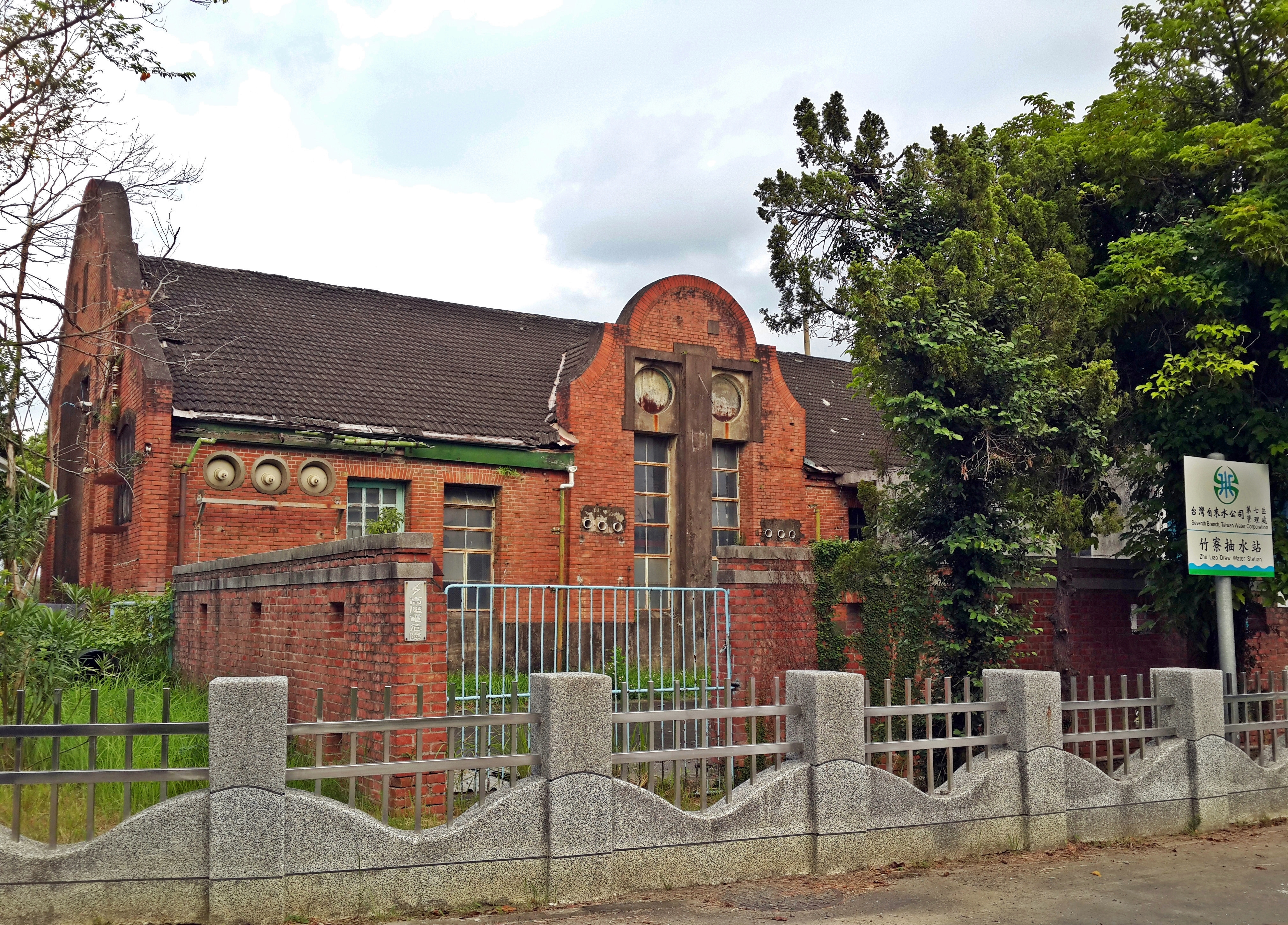 The Jhuliao hydro-pump station was completed in 1913 to pump in source water and feed the tap water system of the entire old Dagou area. The station’s main structure is built with red bricks and the traditional double-sloped roof is supported by a large-span wooden frame. However, the side walls are not of traditional style. They are composed of eye-catching arches, giving the building a touch of Western architectural style. The spacious interior is large enough to house the latest model power pump; the pump draws water from the Gaoping River and pumps it up to water processing facility. Here, the water is purified before it is gravitated to the city’s water system. This hydro-pump station not only marked a great advancement for Kaohsiung in modern history, but also helped to eradicate contagious diseases among the dense population.